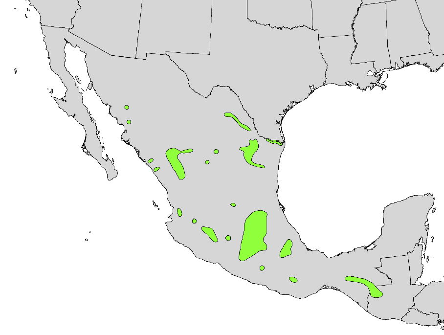 Range distribution map of Taxodium mucronatum — Montezuma cypress, in North America.